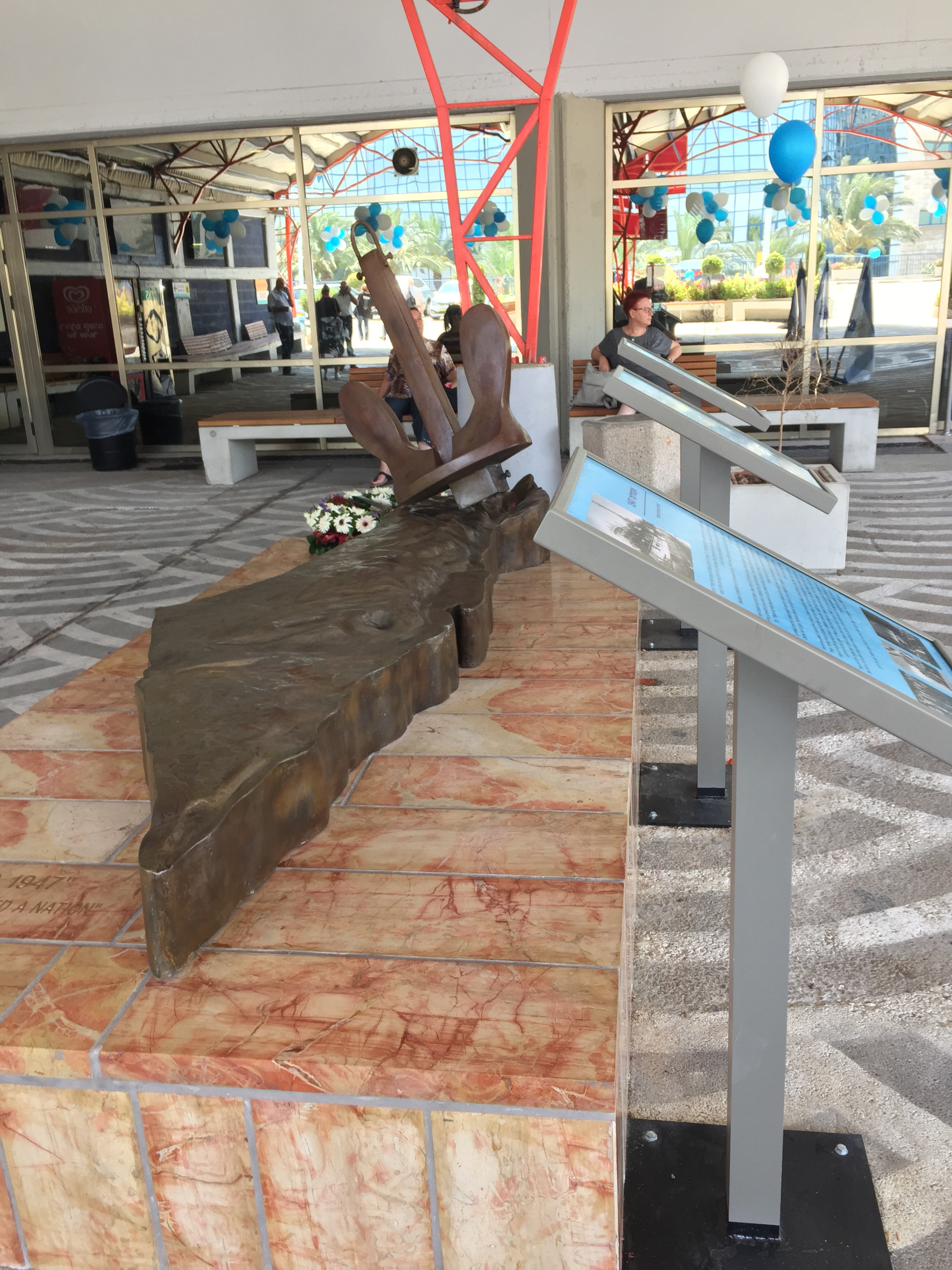 9' bronze map of Israel with an anchor modeled on the Exodus mounted on rose colored Jerusalem stone